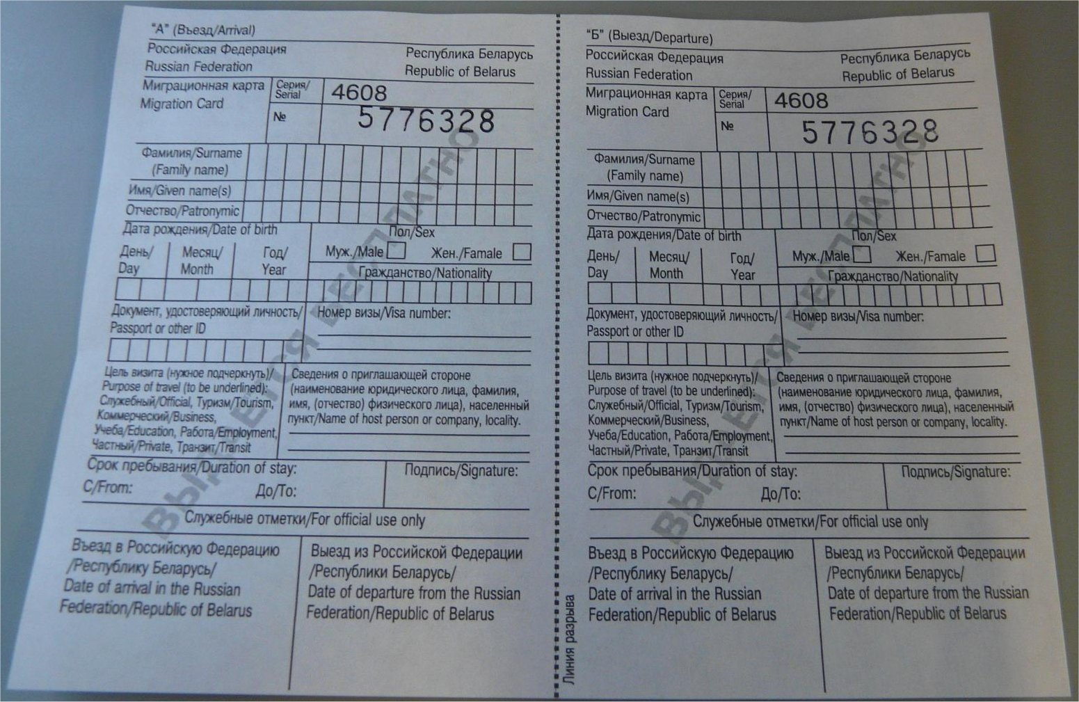 Migration card received at the border station or in airplane (or train) when entering the country (Russia or Belarus). Visitor needs to fill the misisng information to A and B parts of this document. Part A is left at the border control when entering the country. Part B is kept during the visit and returned to the border control as one leaves the country. Миграционная карта 1